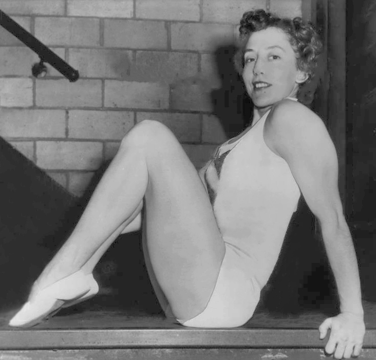 1948 Press Photo Clara Schroth at 1948 US Women's Olympic Gymnastics Squad trial